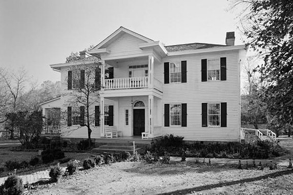 George M. Murrell House — Murrell Road, at junction of South Keeler Drive and East Murrell Road, Park Hill, Cherokee County, Oklahoma) Image (1979): HABSHistoric American Buildings Survey of Oklahoma, cropped.